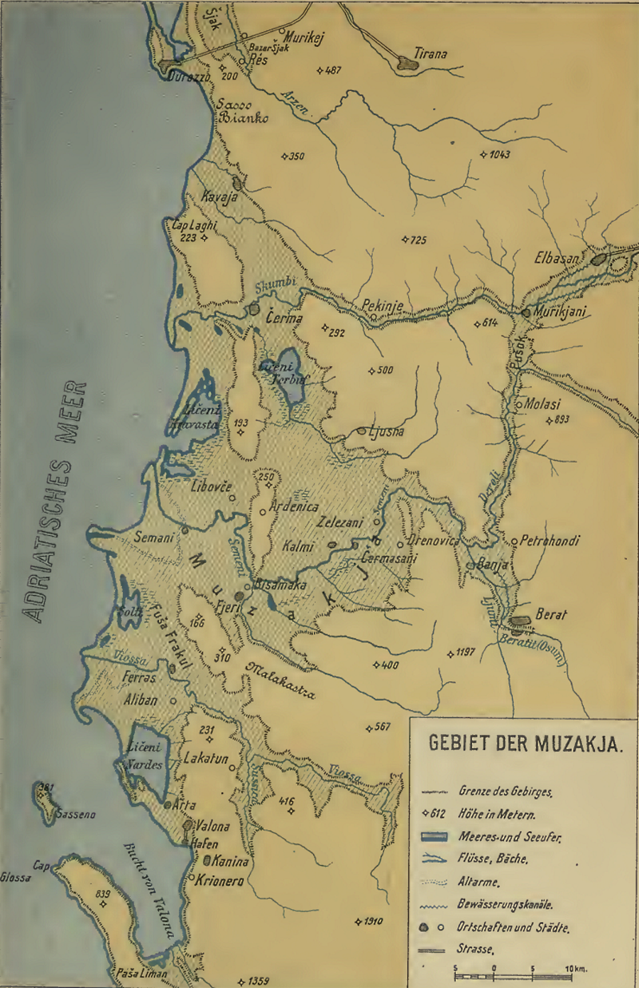 Territory of Musakja